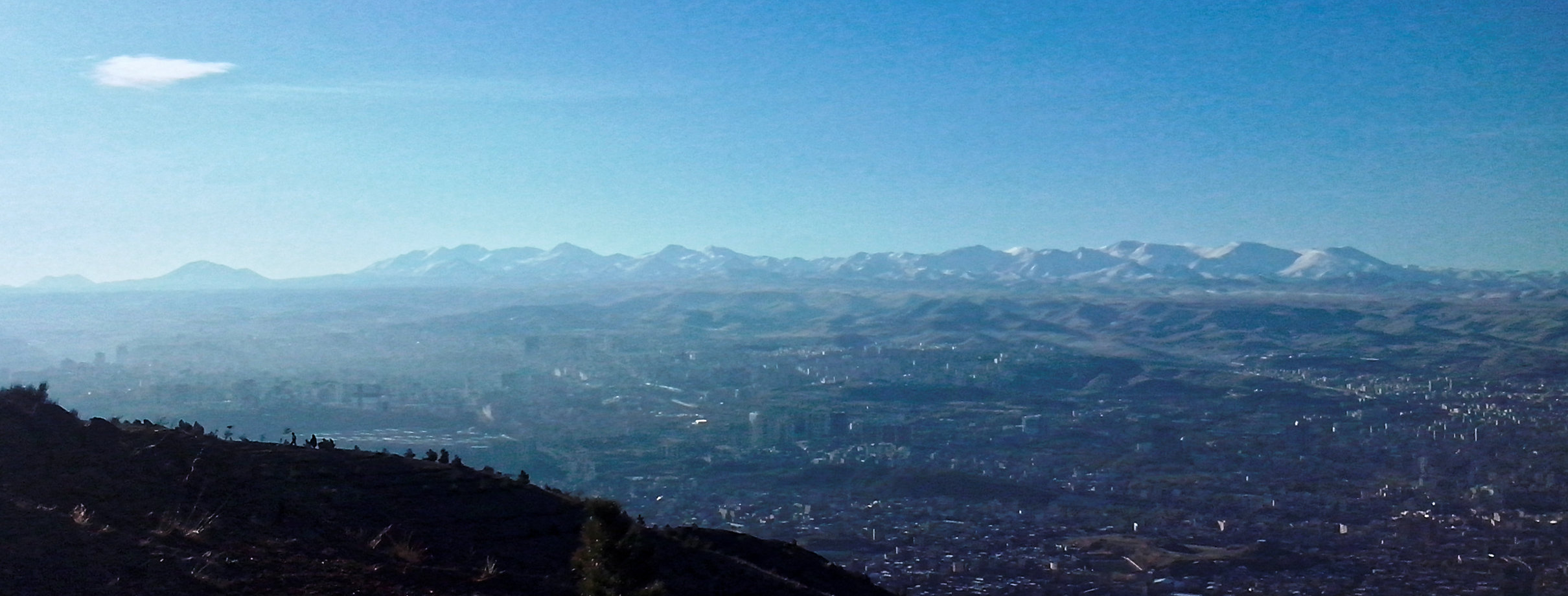 Mount Sahand from Eynali Mount, Tabriz.